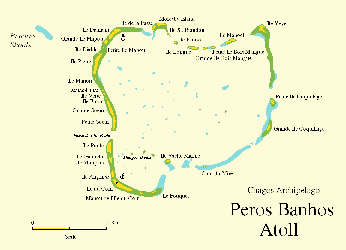 Atoll map